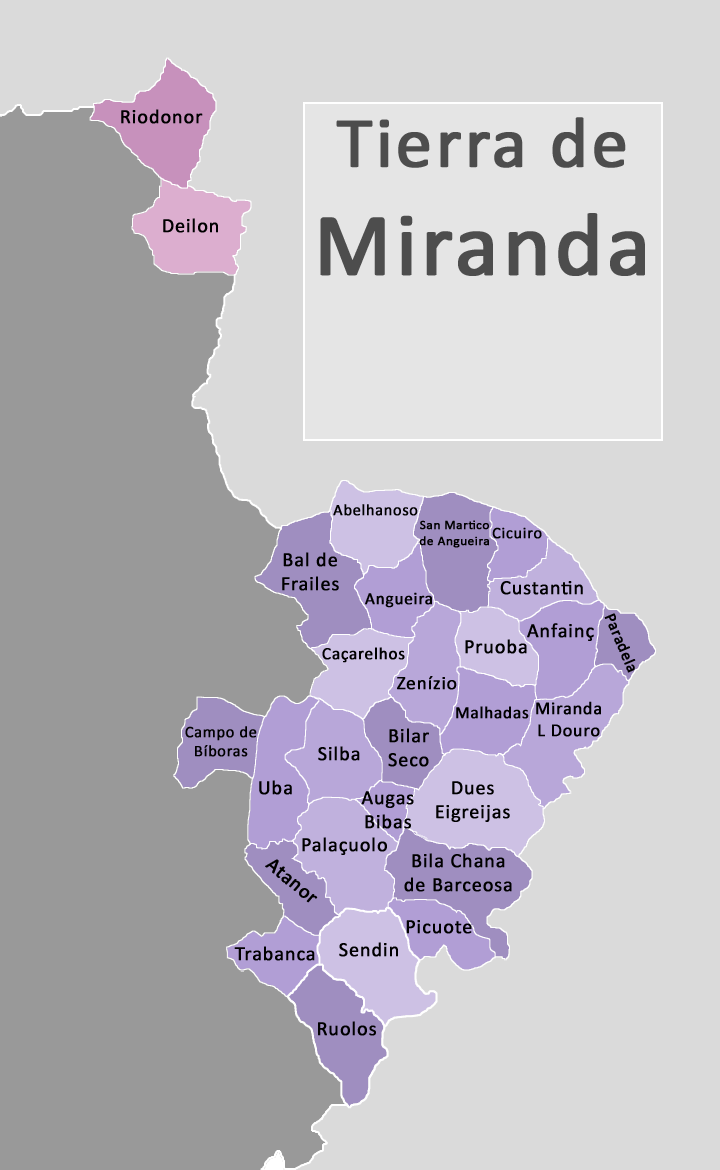 Locations of the Terra de Miranda